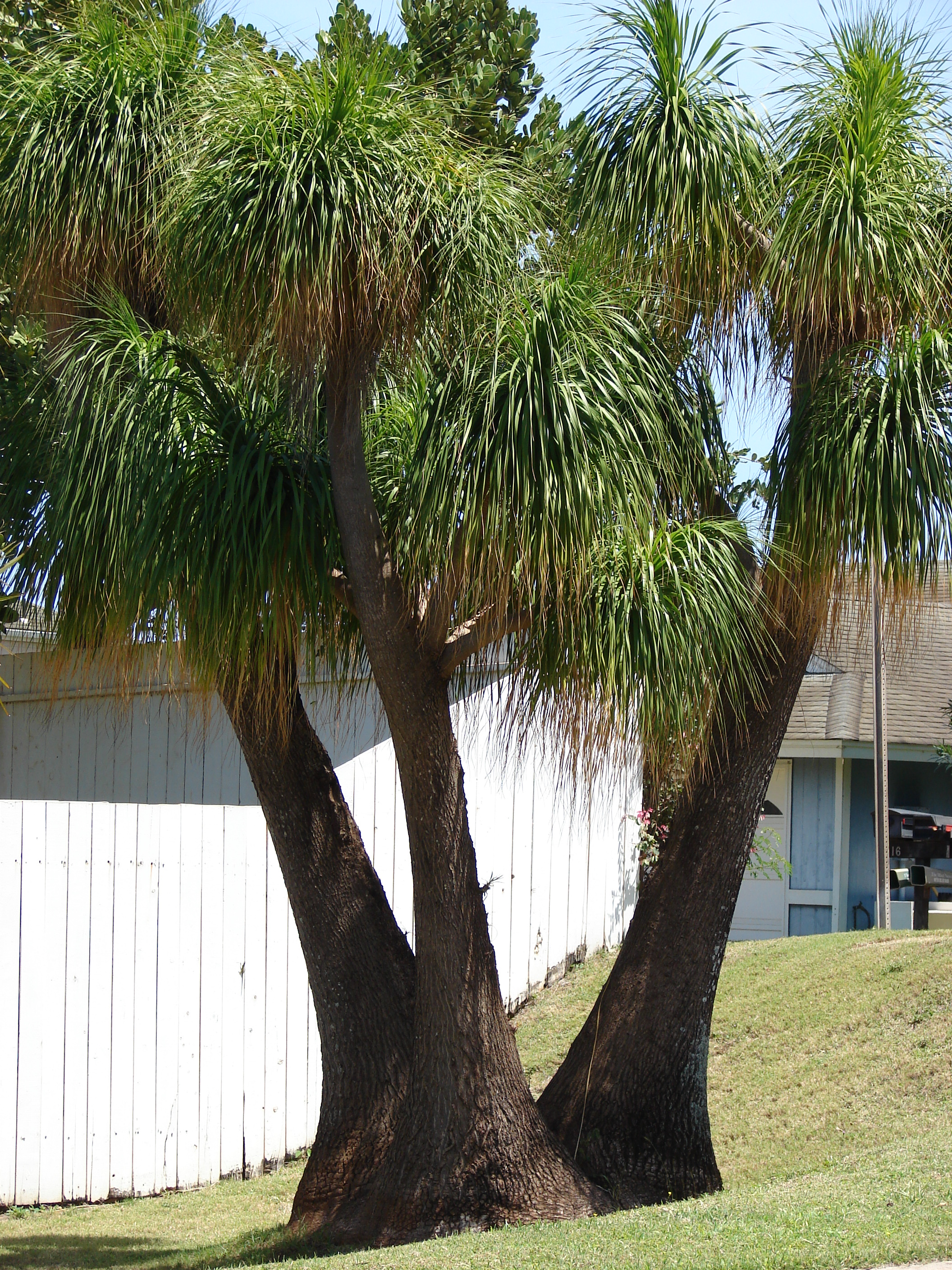 Beaucarnea recurvata (Pony tail palm, beaucarnea, bottle ponytail) Habit at Paia, Maui, Hawaii. April 29, 2009 #090429-6512 Image Use Policy Also known as Nolina recurvata. Also placed in Agavaceae.